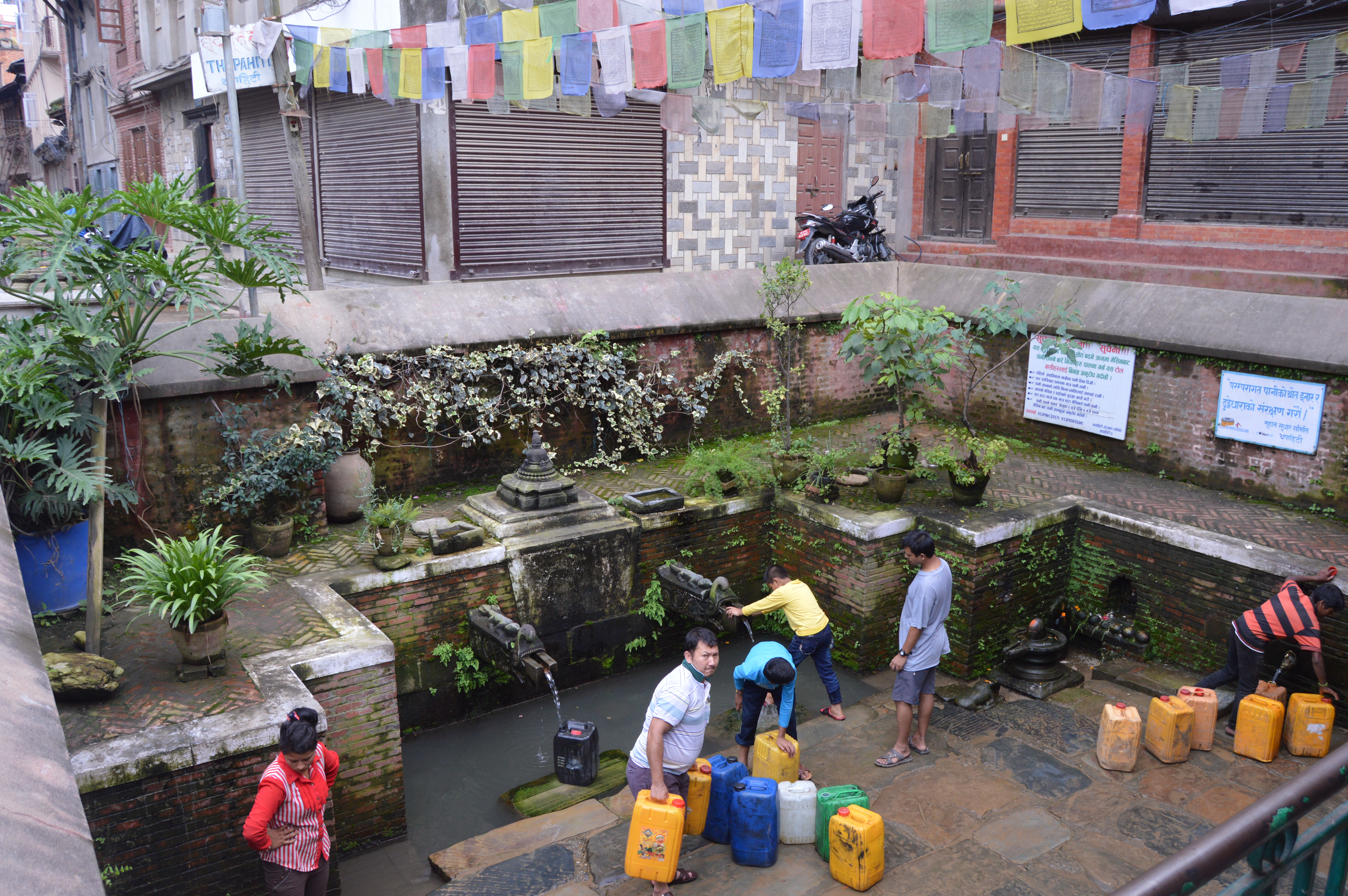 Thapa Hiti